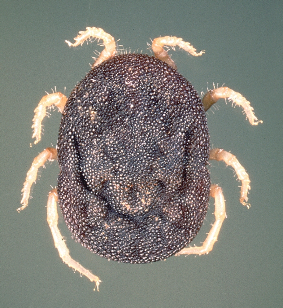 The soft tick, family Argasidae, Ornithodoros savignyi. Dorsal view of an adult female. These ticks are called soft because they have no hard plates on their outer body, as do ticks in the Ixodidae family.